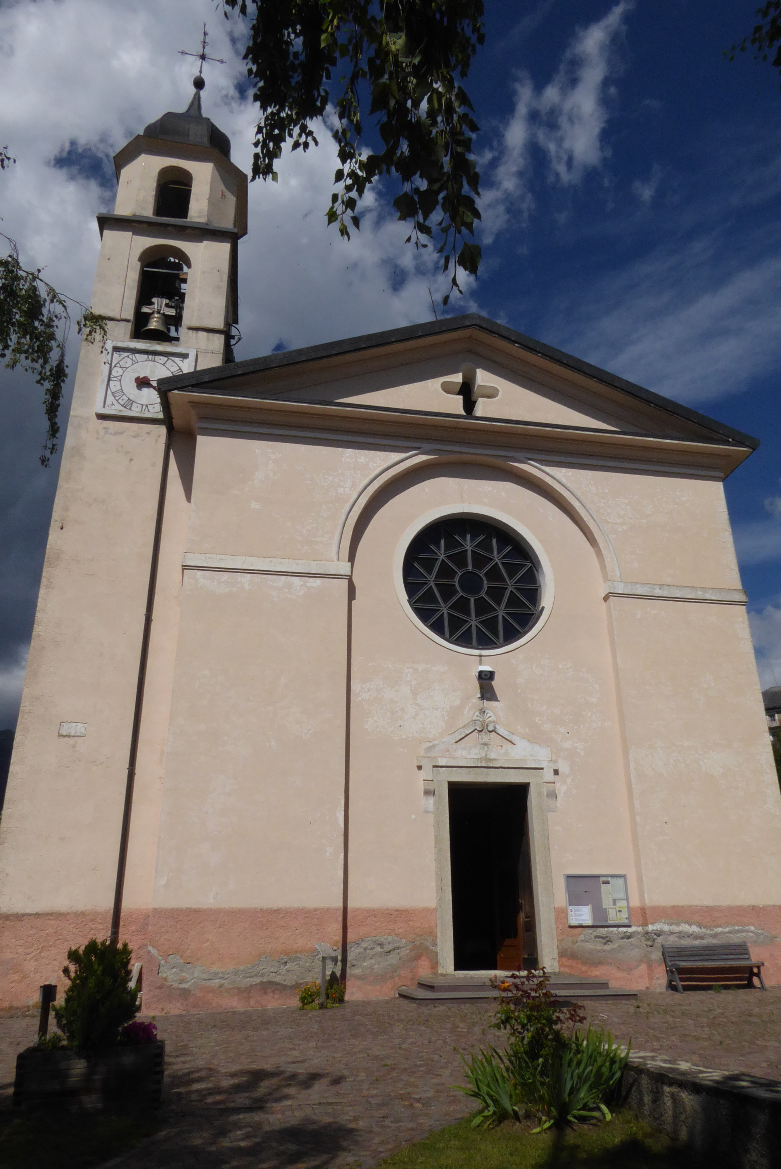 San Felice (Fierozzo, Trentino, Italy), Saint Felix of Nola church